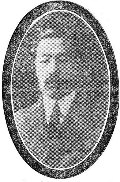 Eom Ju-ik, Korean politicians and educators.